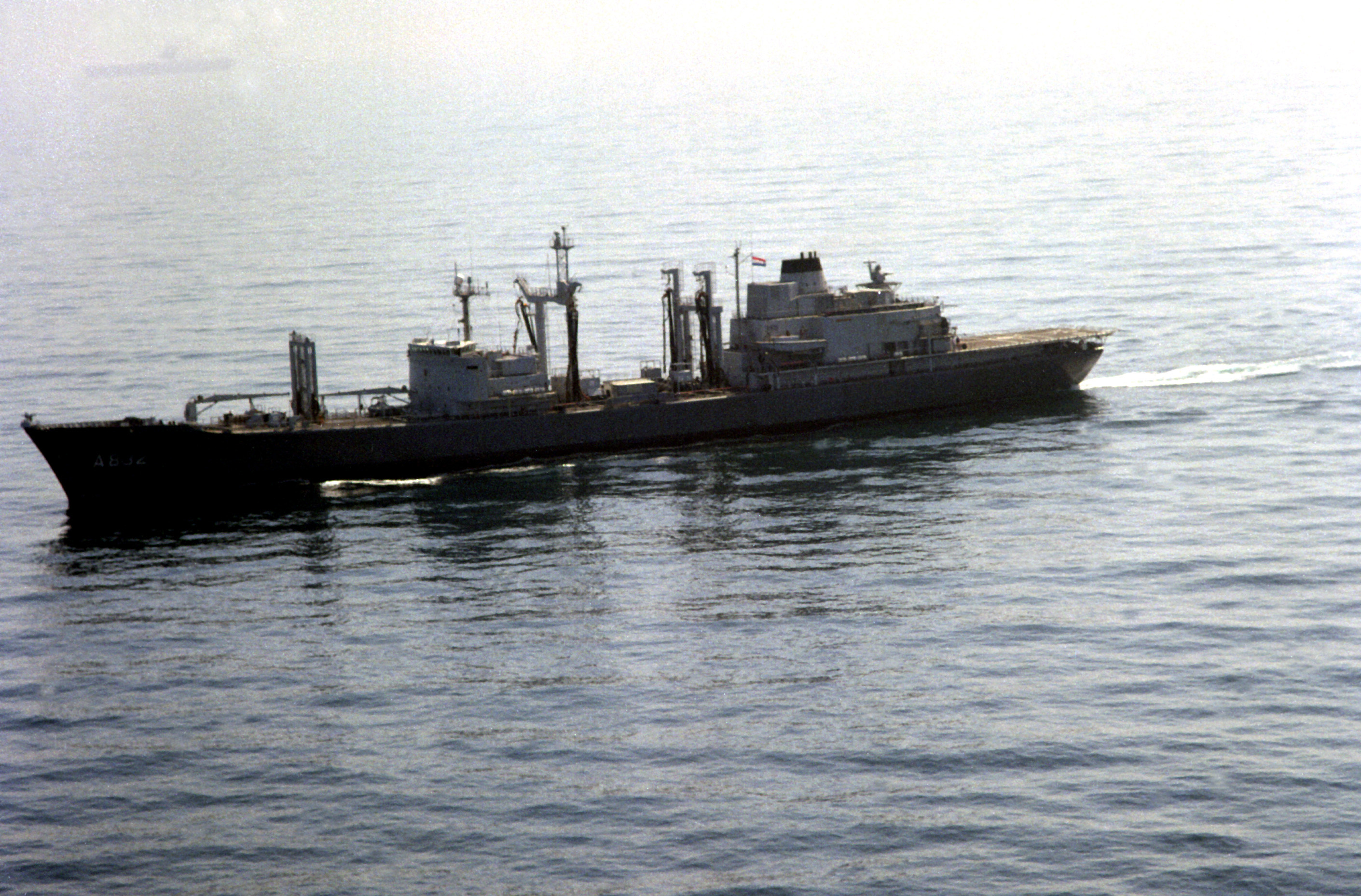 A port bow view of the Dutch fast combat support ship Hr. Ms. Zuiderkruis (A832) underway during Operation Desert Shield.